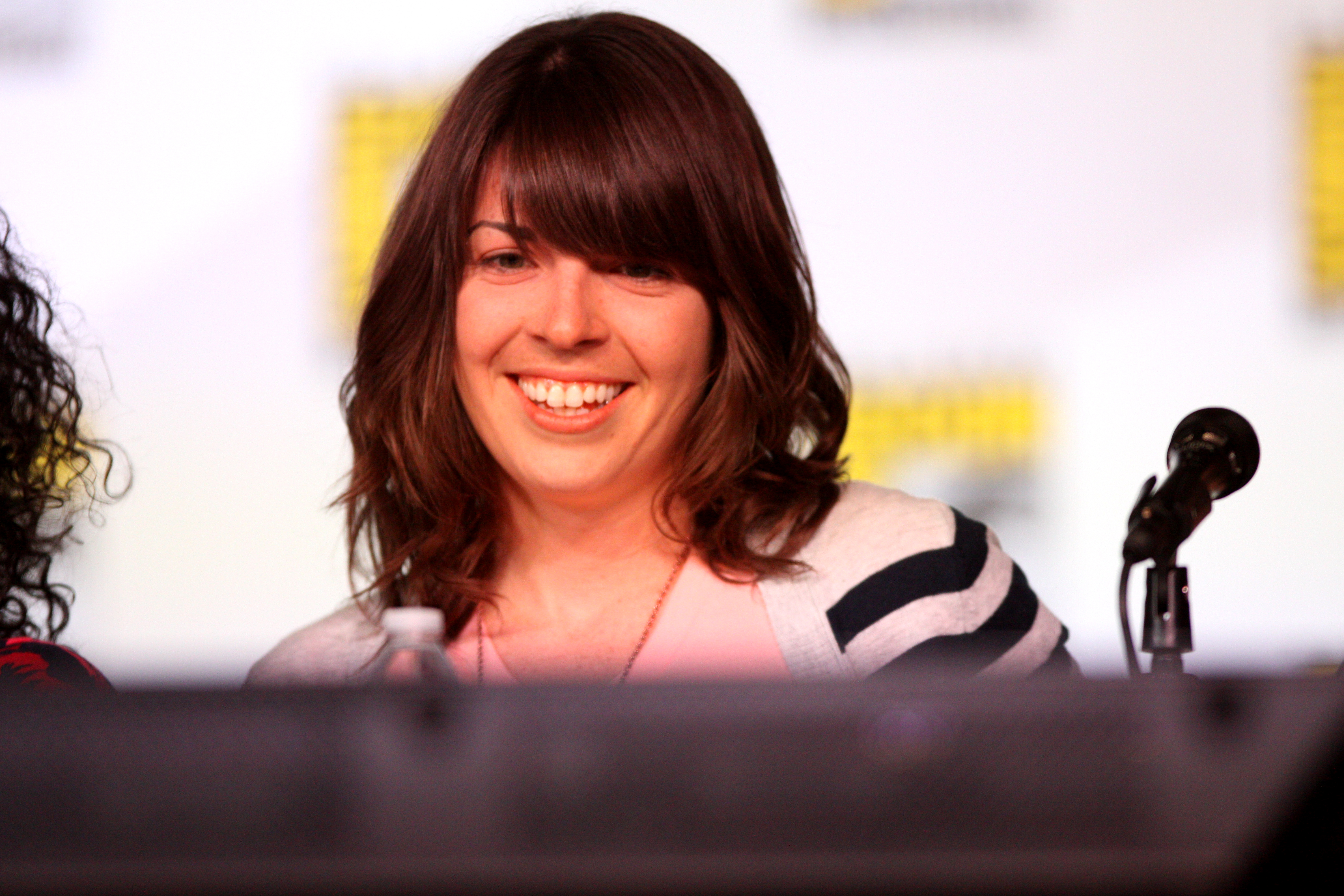 Megan Ganz speaking at the 2012 San Diego Comic-Con International in San Diego, California.